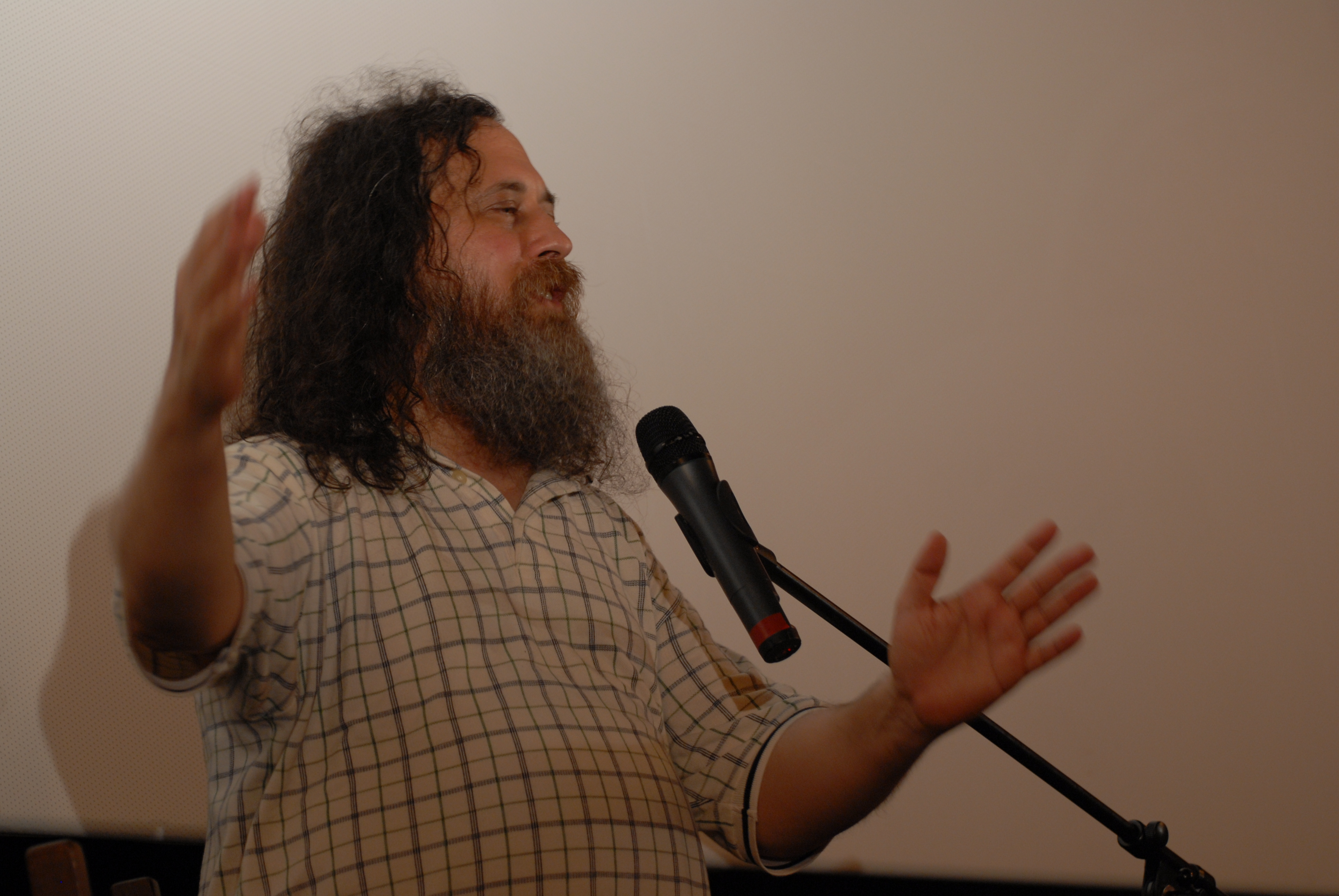 Richard Stallman giving a talk organized by association Toulibre at "Cinema Utopia", in Toulouse.